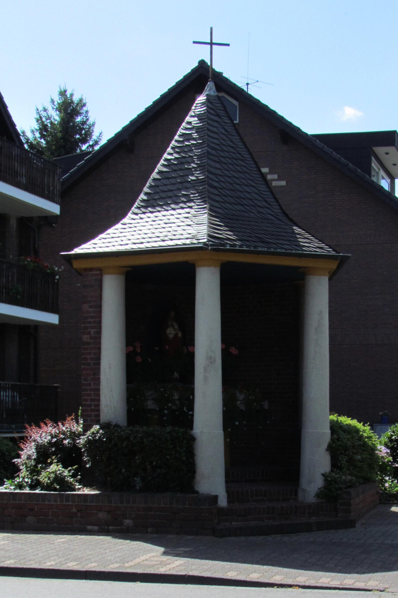 This is a photograph of an architectural monument.